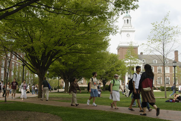 from